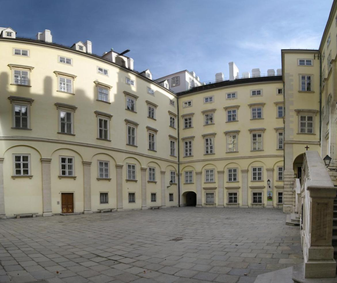 Panoramic view of the Schweizerhof, the oldest courtyard in the Hofburg palace in Vienna.